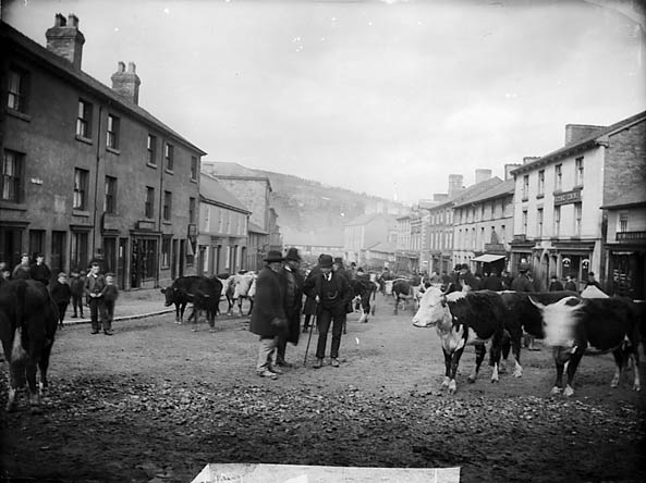 1 negative : glass, dry plate, b&w ; 16.5 x 21.5 cm.